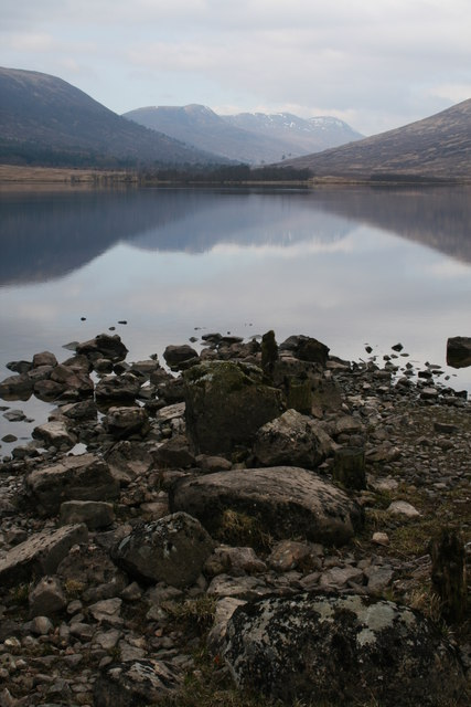 Loch Arkaig